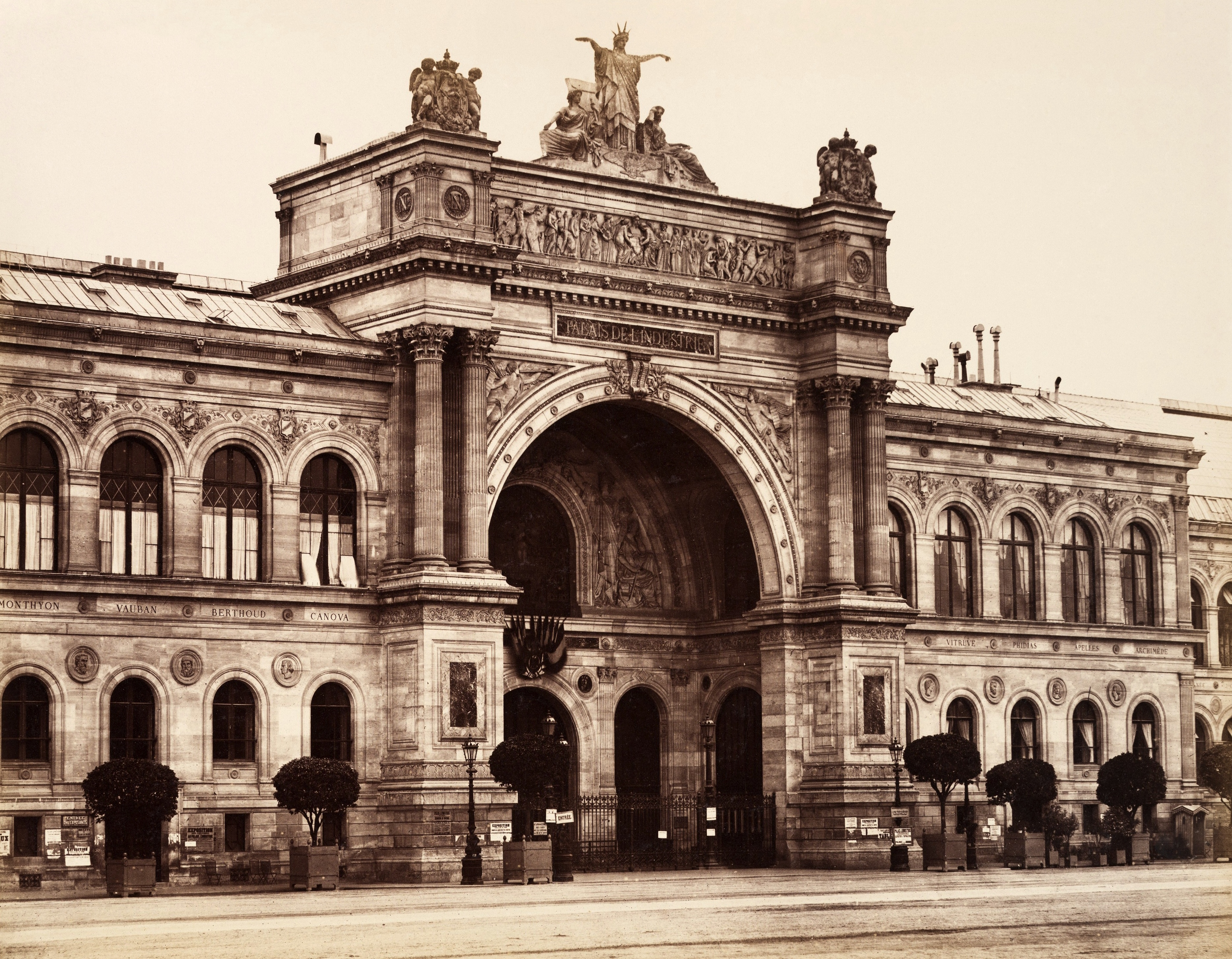 Palais de l'Industrie Medium: Albumen silver print Dimensions: 21.6 x 27.9 cm. (8 1/2 x 11 in.)